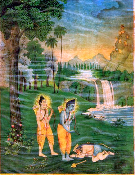 Hanuman meets Sri Rama in Forest